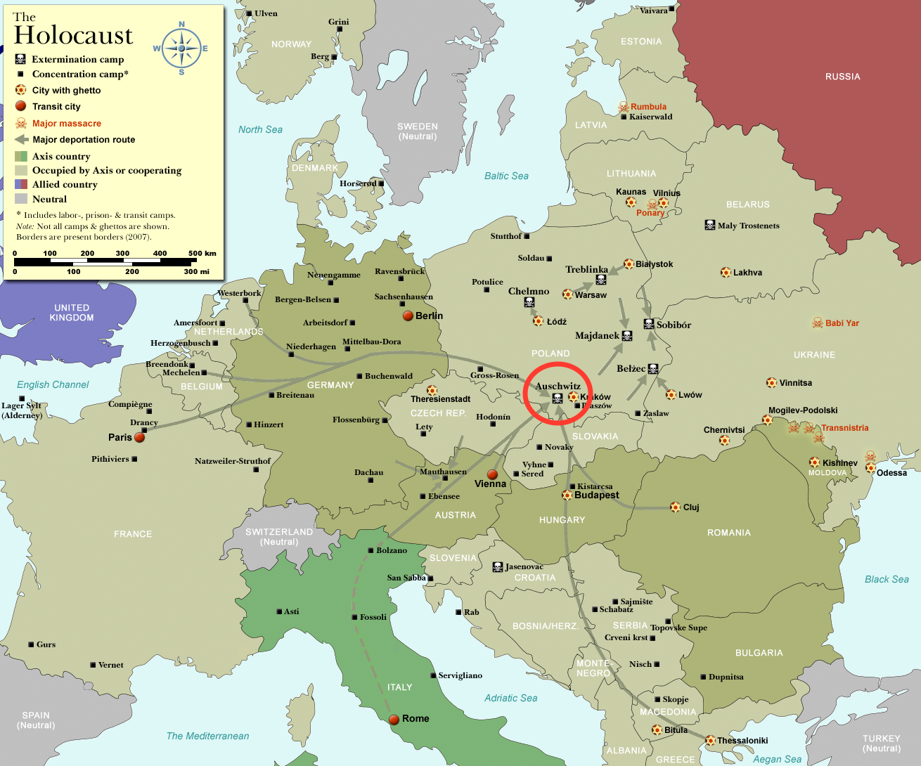 Map of the Holocaust in Europe during World War II, 1939–1945. This map shows all extermination camps (or death camps), most major concentration camps, labor camps, prison camps, ghettos, major deportation routes and major massacre sites. Please note that a version with 1942 borders is available here: Image:WW2-Holocaust-Europe.png. Notes: 1. Extermination camps were dedicated death camps. 2. Concentration camps include labor camps, prison camps & transit camps. 3. Not all camps & ghettos are shown. 4. Borders are present borders (2007). Übersetzung der "Notes" bis hierher: 1. Extermination camps = Vernichtungslager als Fachbegriff für ganz bestimmte Konzentrationslager. 2. Concentration camps umfassen hier auch Arbeitslager, Gefängnislager und Transitlager. 3. Nicht alle Konzentrationslager werden gezeigt. 4. Die Namen der Konzentrationslager und die Pfeile für die Deportation sind in Karten des modernen Nachkriegseuropas eingetragen.